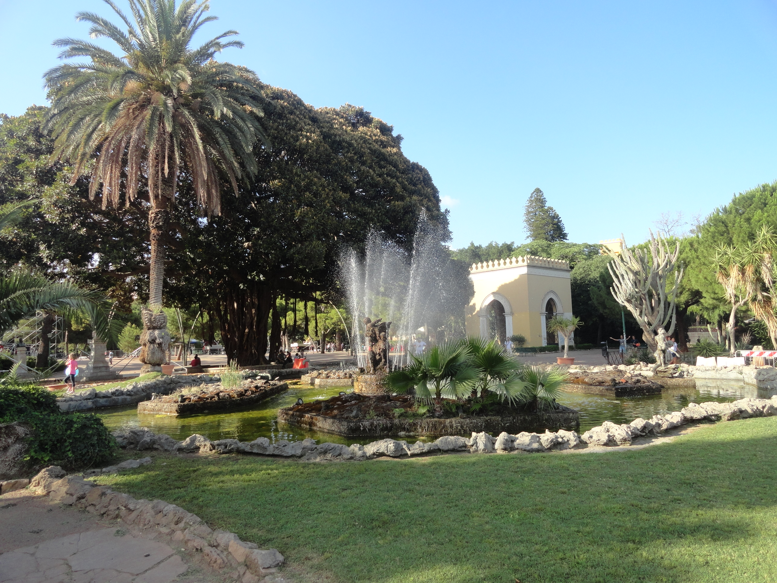 A view at the fountain in the English garden or Giardino Inglese in Palermo, Sicily, Italy. This is one of the most beautiful parks in the city. By the founder of